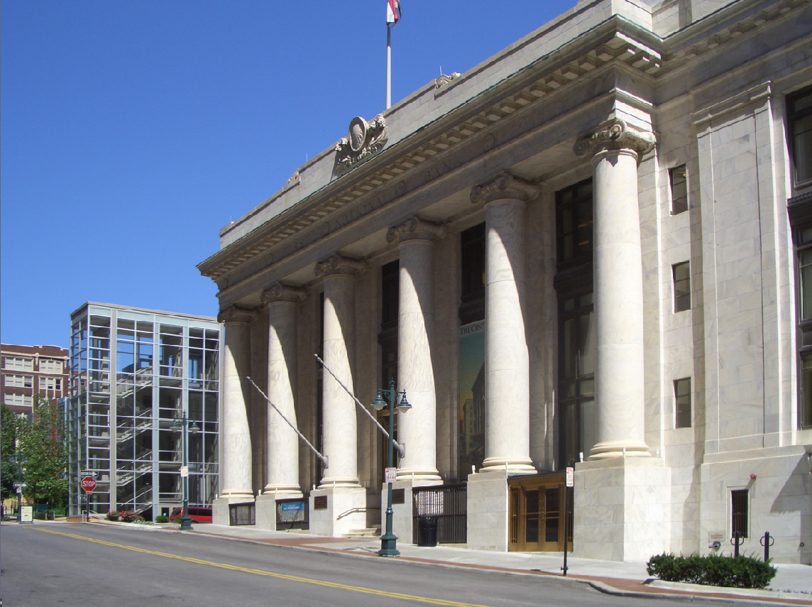 Kansas City (Missouri) Public Library, Central Branch